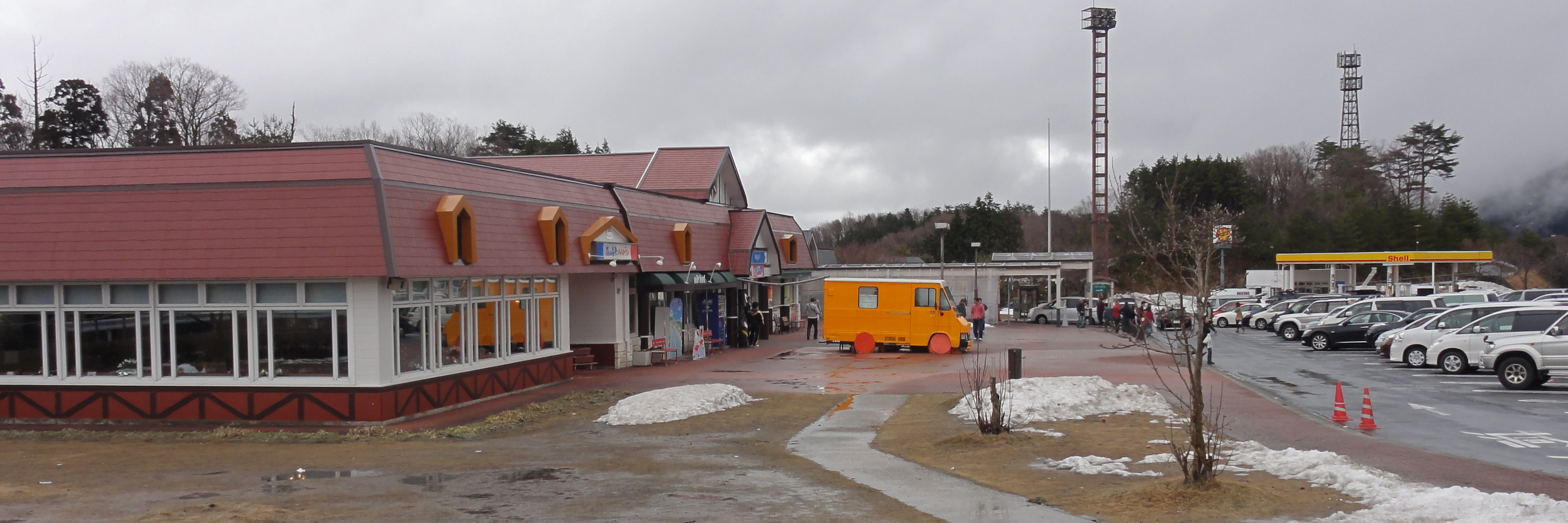 Hiruzen kogen Service Area nobori,Okayama prefecture, Japan